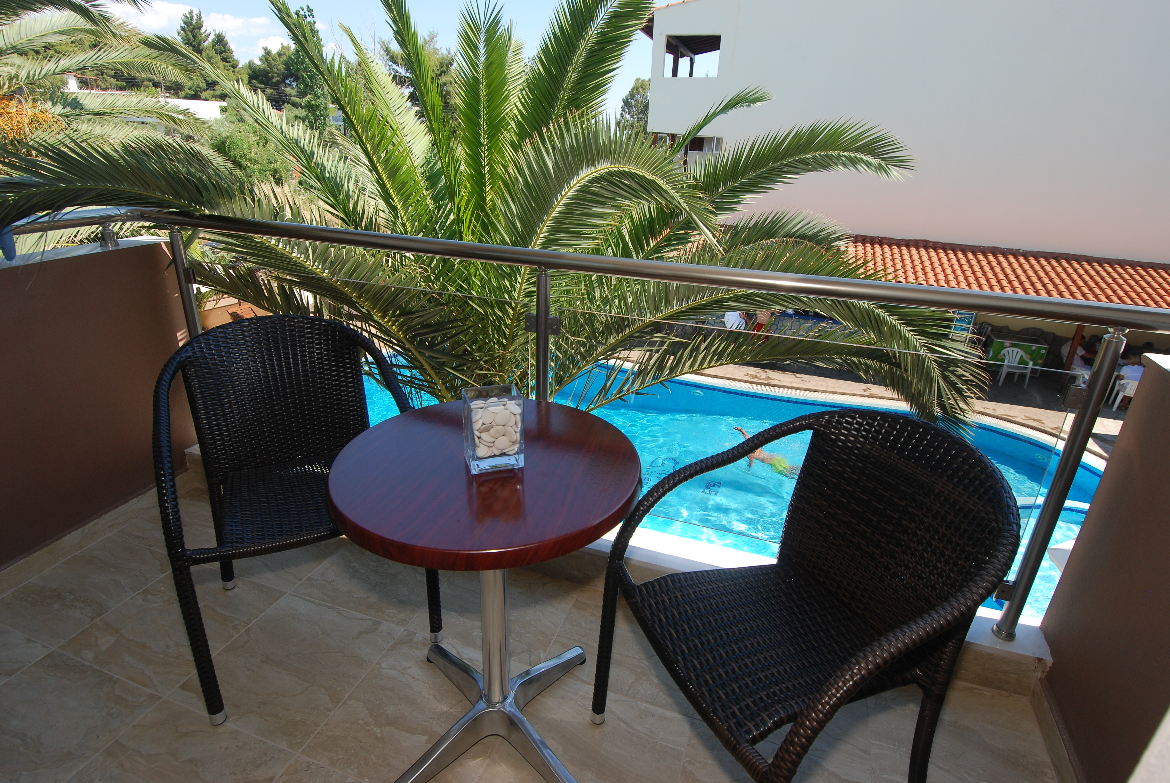 Hotel Simeon. View from balcony